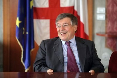 Flavio Zanonato, mayor of Padova